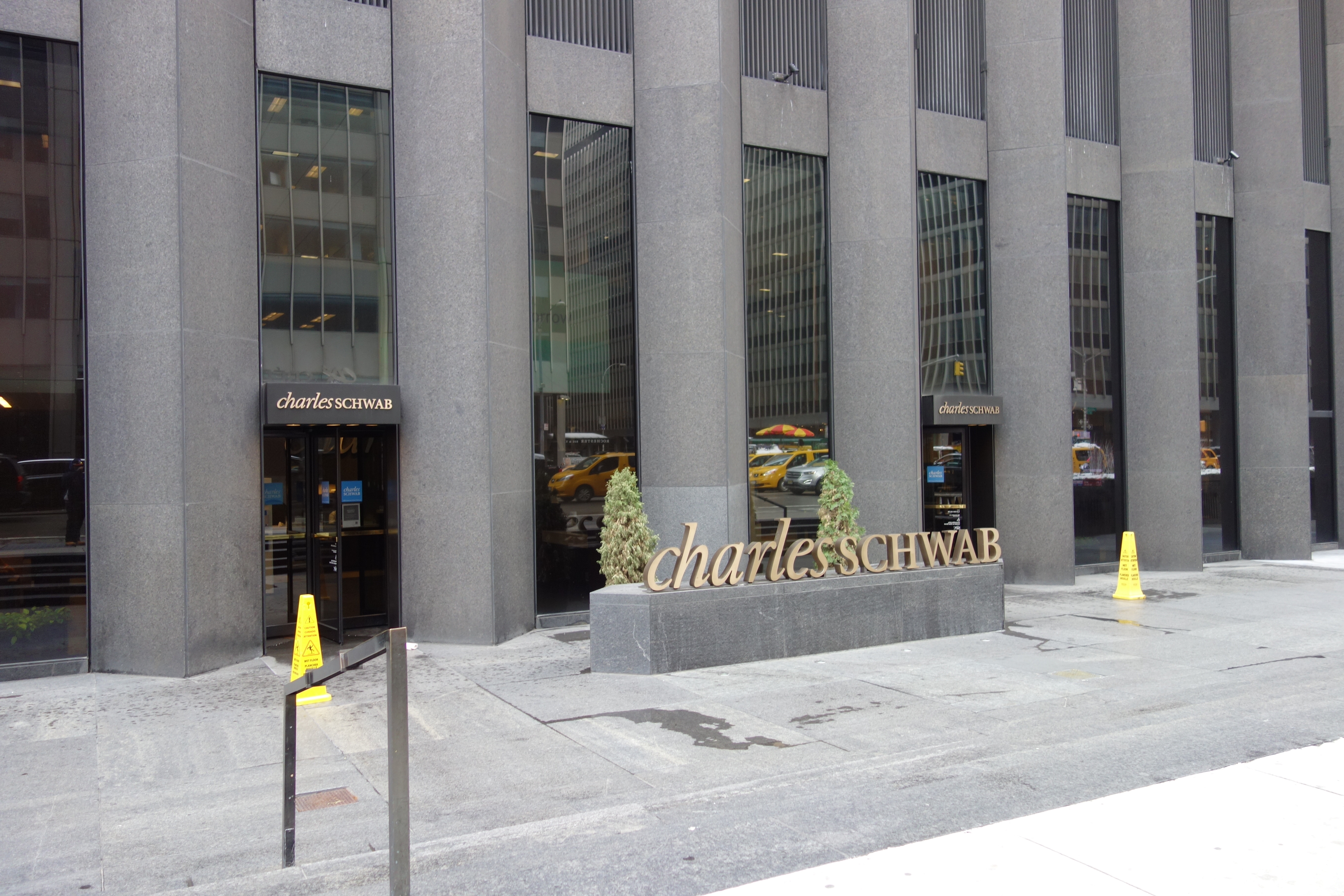 The CBS Building (51 West 52nd Street), on the east side of Sixth Avenue between 52nd and 53rd Streets in Midtown Manhattan. Pictured are signs for Charles Schwab.